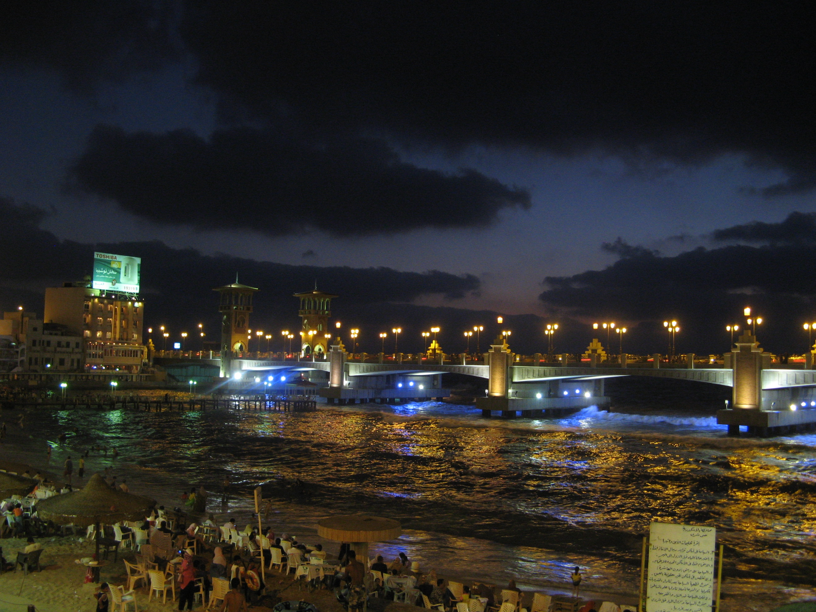 The Stanley Bridge in Alexandria, Egypt.